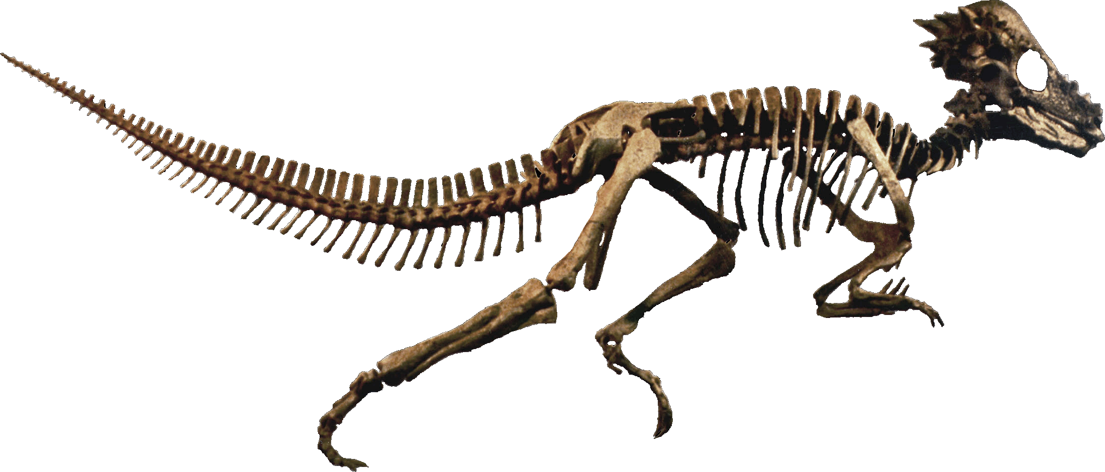 Pachycephalosaurus based on the "Sandy" specimen in the Rocky Mountain Dinosaur Resource Center, Woodland Park, Colorado